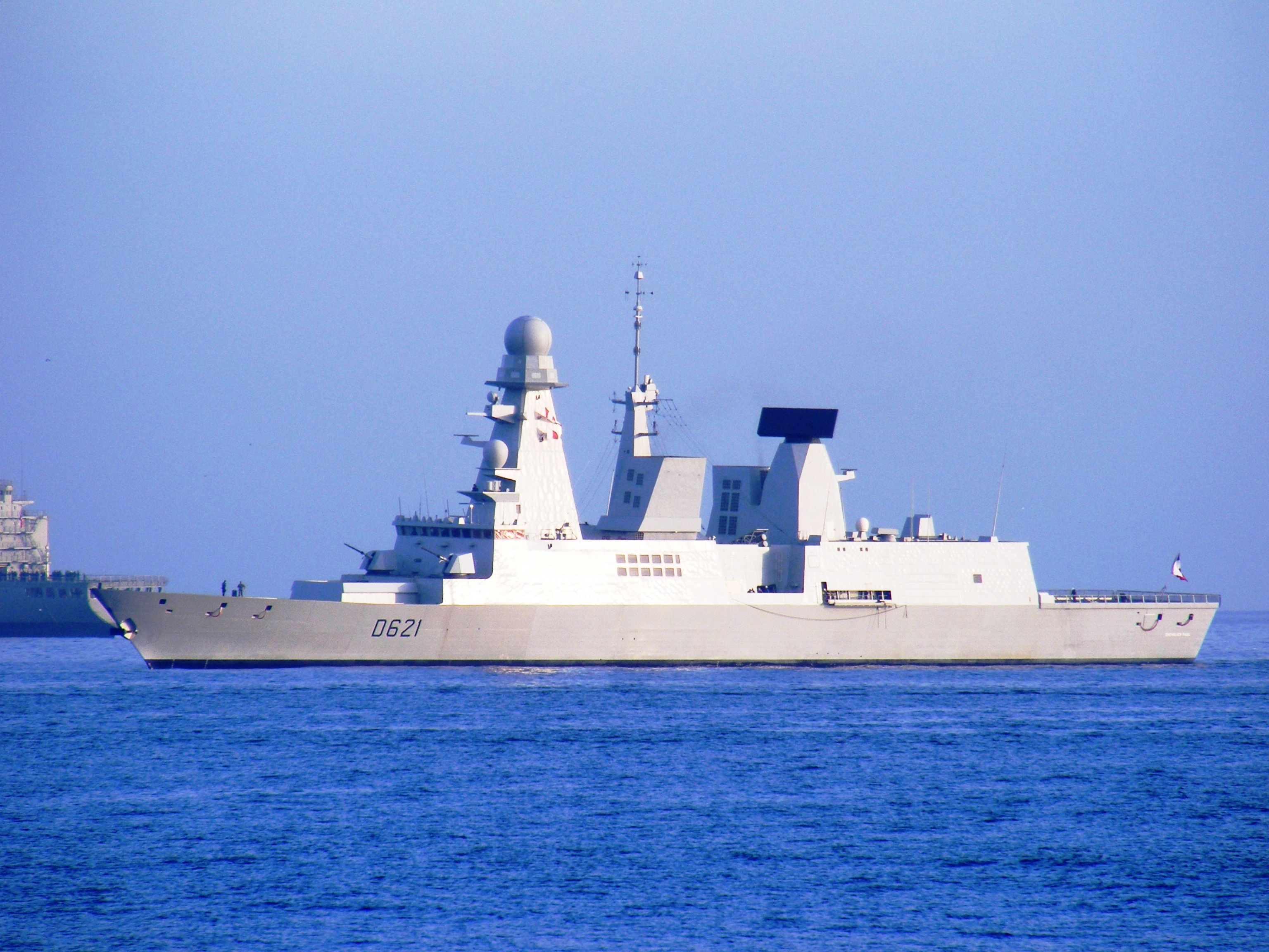 french destroyer Chevalier Paul at Valparaiso